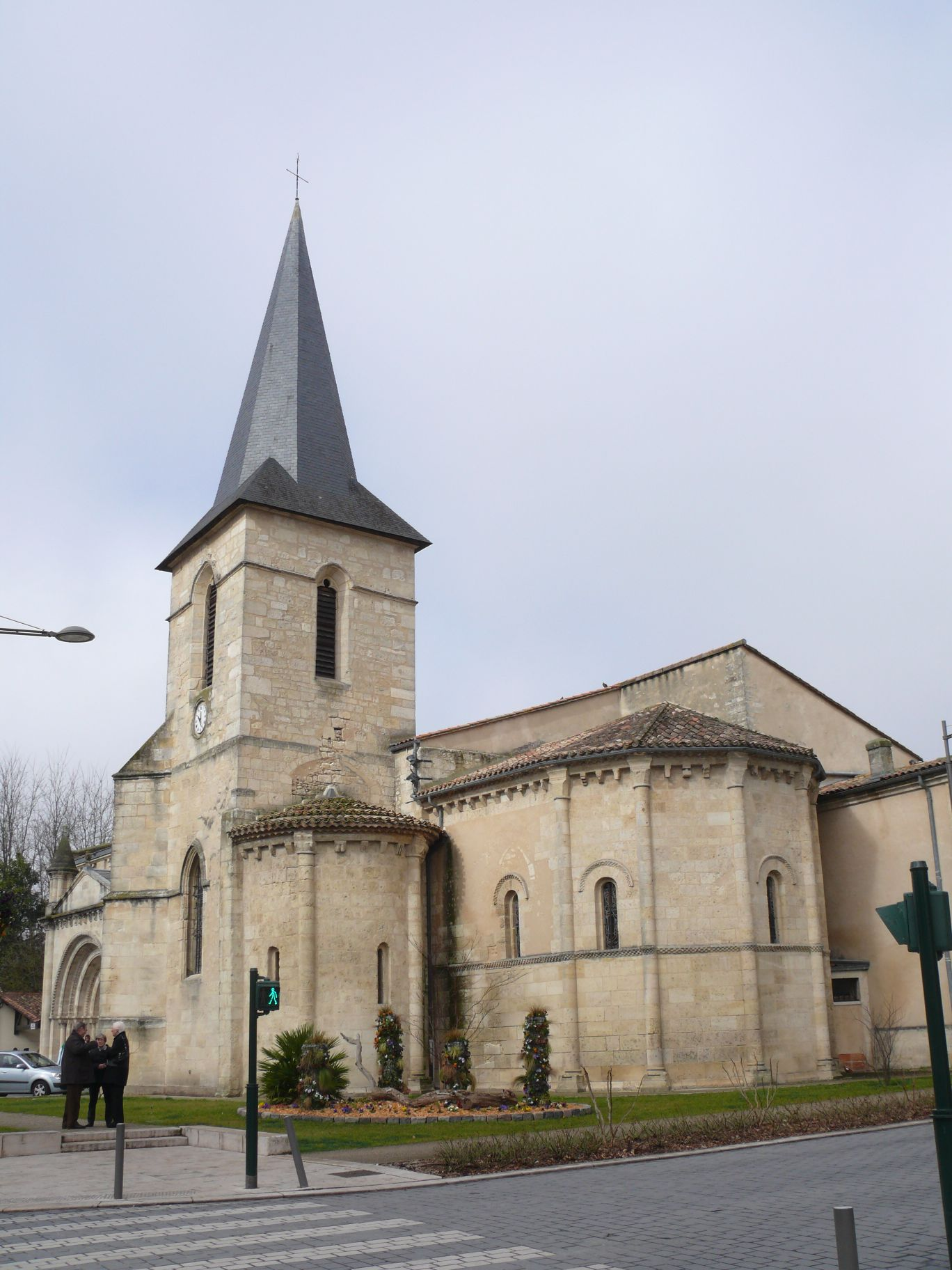 Saint-Médard's church of Saint-Médard-en-Jalles (Gironde, France).